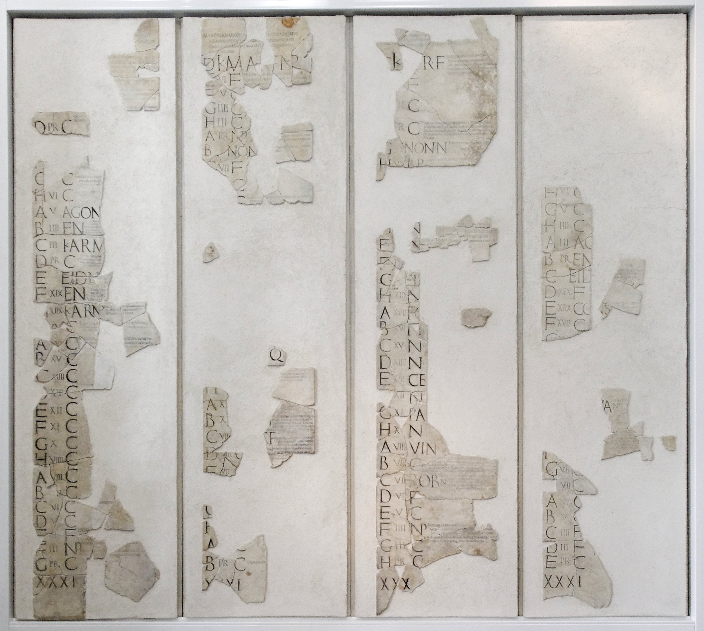 Fasti Praenestini, calendar of Verrius Flaccus. From Palestrina.